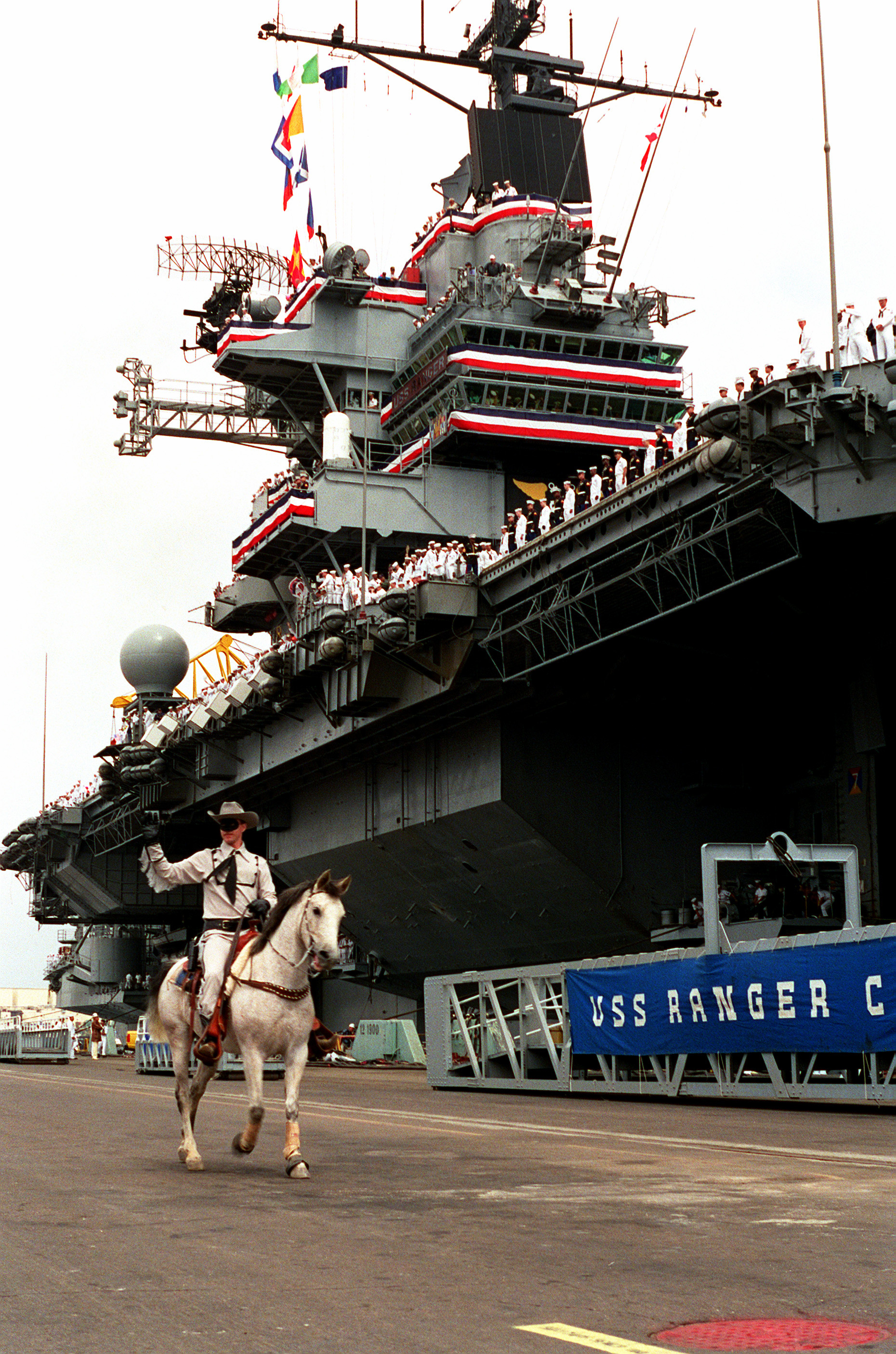 A man dressed as the Lone Ranger rides his horse along the pier as the aircraft carrier USS RANGER (CV-61) ties up behind him. The RANGER has returned to North Island following its deployment to the Persian Gulf region for Operation Desert Shield and Operation Desert Storm. Location: NAVAL AIR STATION, NORTH ISLAND, CALIFORNIA (CA) UNITED STATES OF AMERICA (USA)